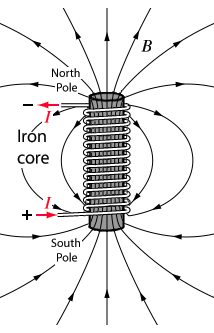 electromagnet